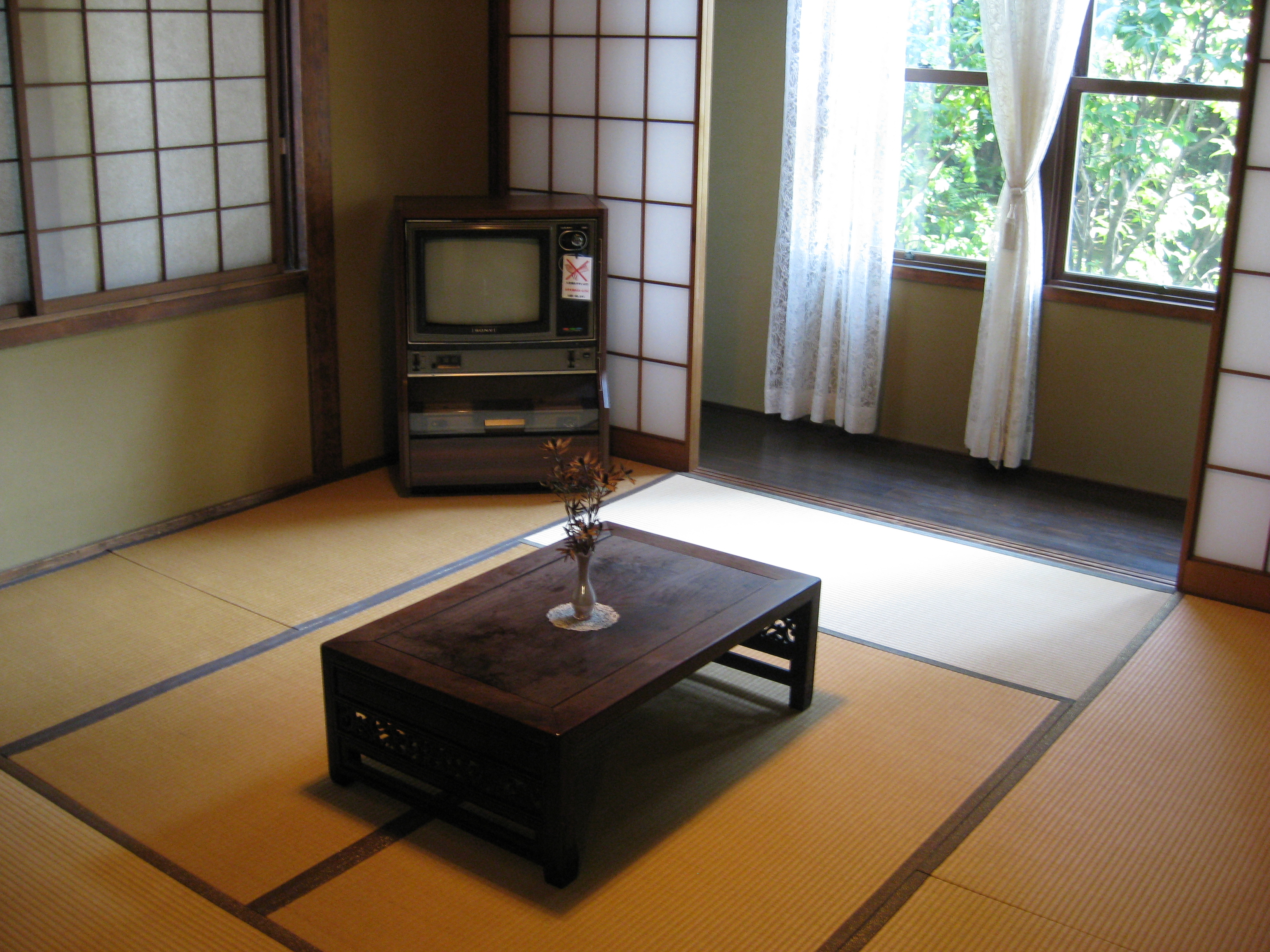 Japanese room at Hatoyama Hall